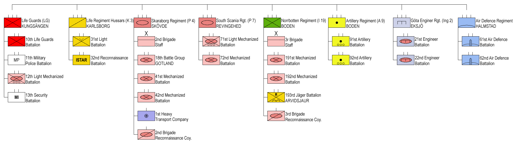 Units of the Swedish Army's Rapid Reaction Organisation (Insatsorganisation in Swedish) from 1 January 2014